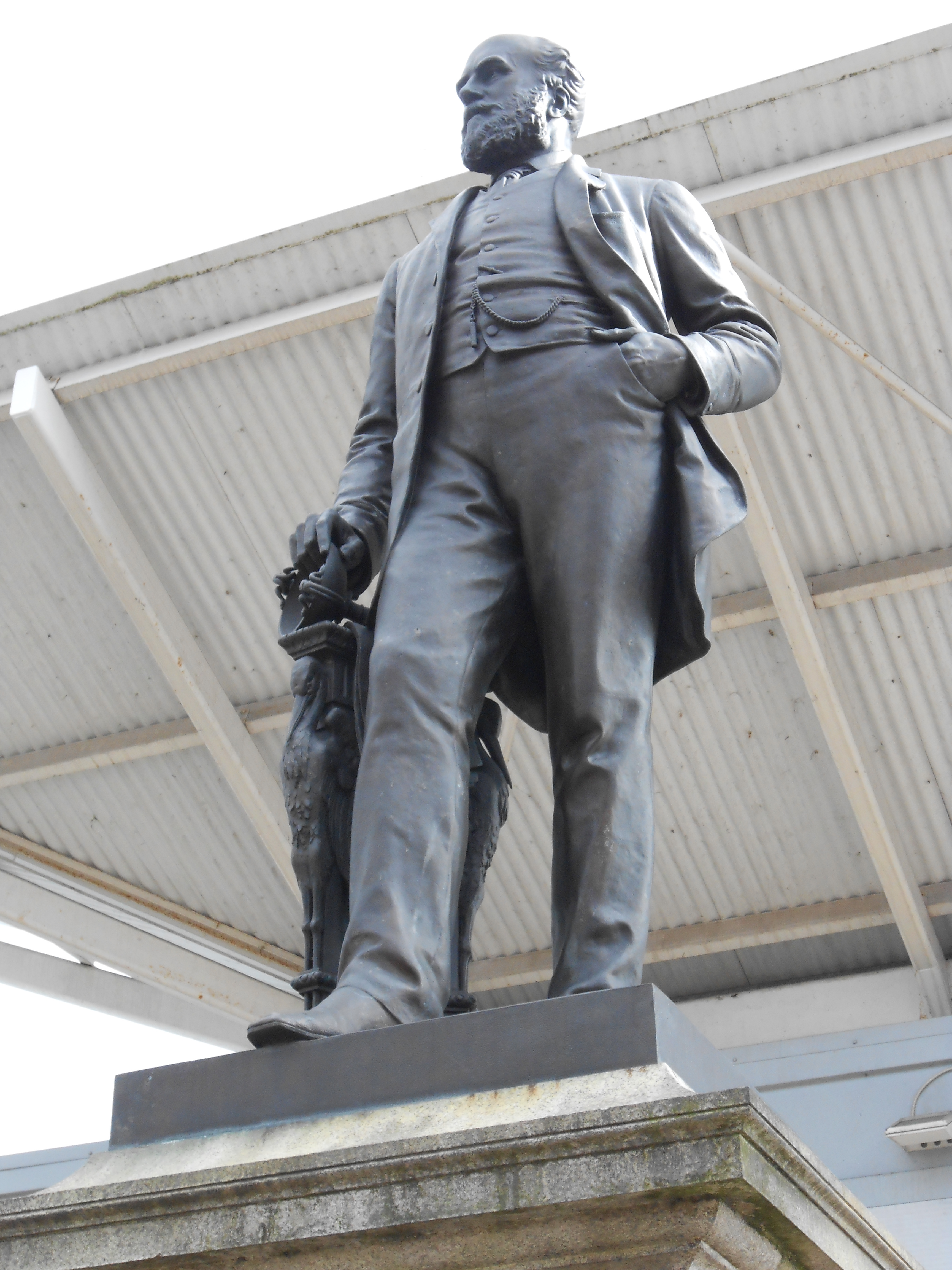 Colin Minton Campbell statue, Stoke-on-Trent, England.